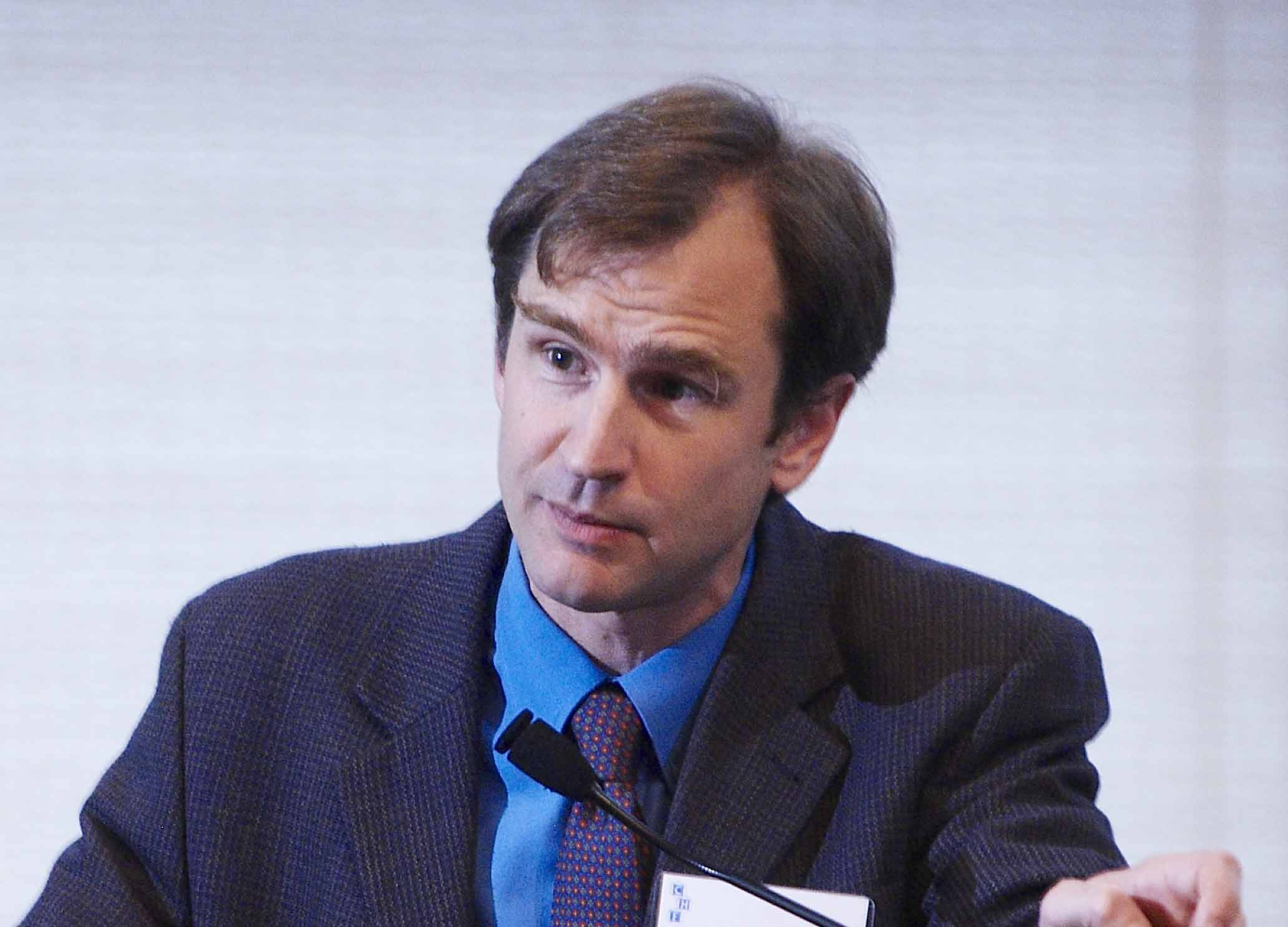 Photograph of bioethicist Michael Selgelid, taken at the 2008 Gordon Cain Conferencer, 27 March 2008, at the Chemical Heritage Foundation, Philadelphia, PA, USA.